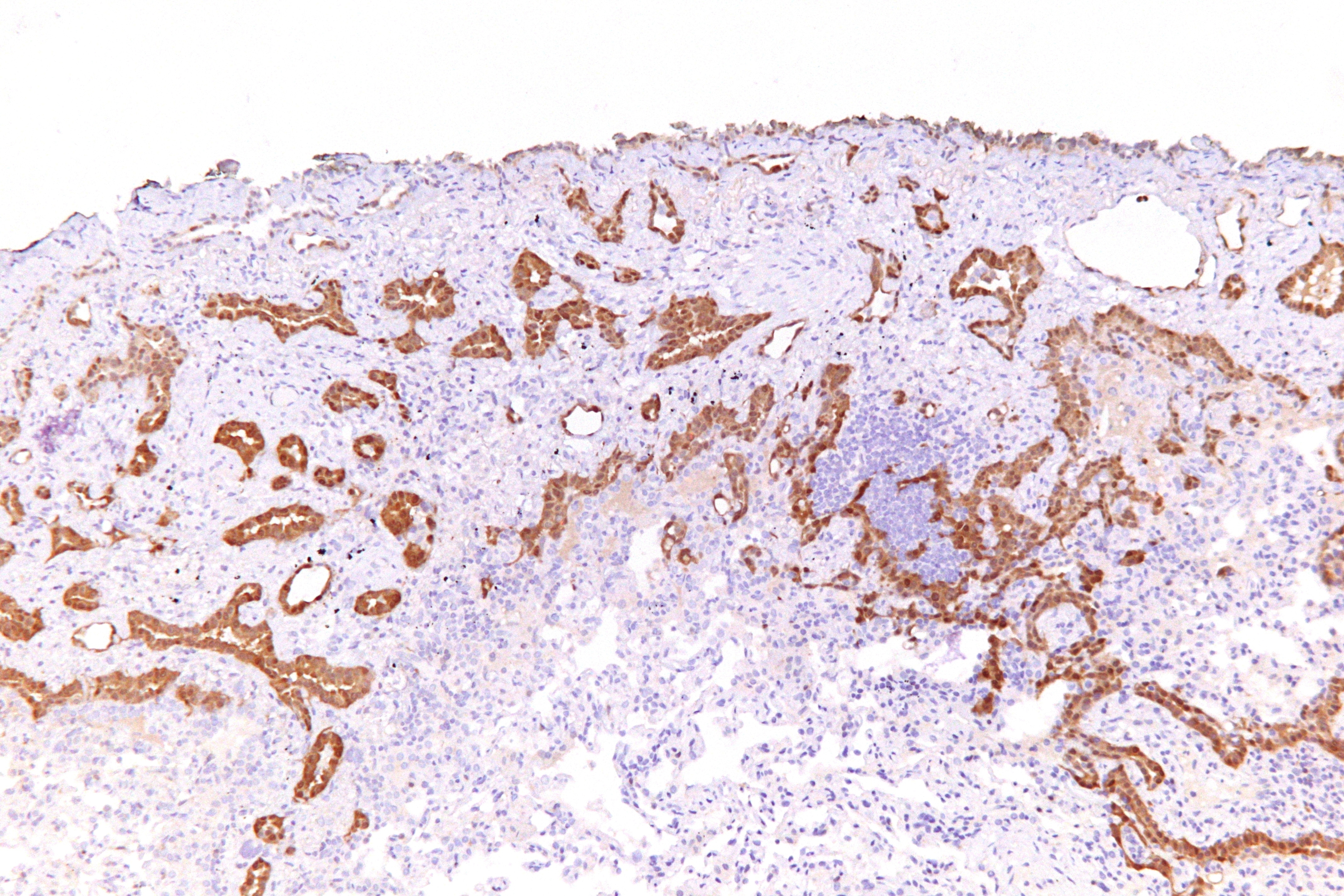 Intermediate magnification micrograph of a malignant epithelioid mesothelioma. Calretinin immunostain. Related images Low mag. Intermed. mag. High mag. Very high mag. Intermed. mag. High mag. Intermed. mag. High mag. High mag. Very high mag.